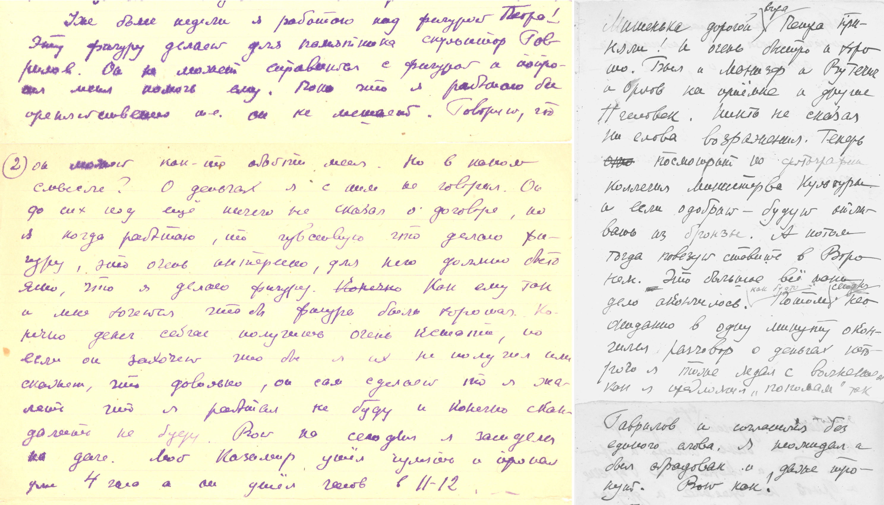 Sculptor G. Schultz to PhD Chemistry M. Schultz (from letters 1955)